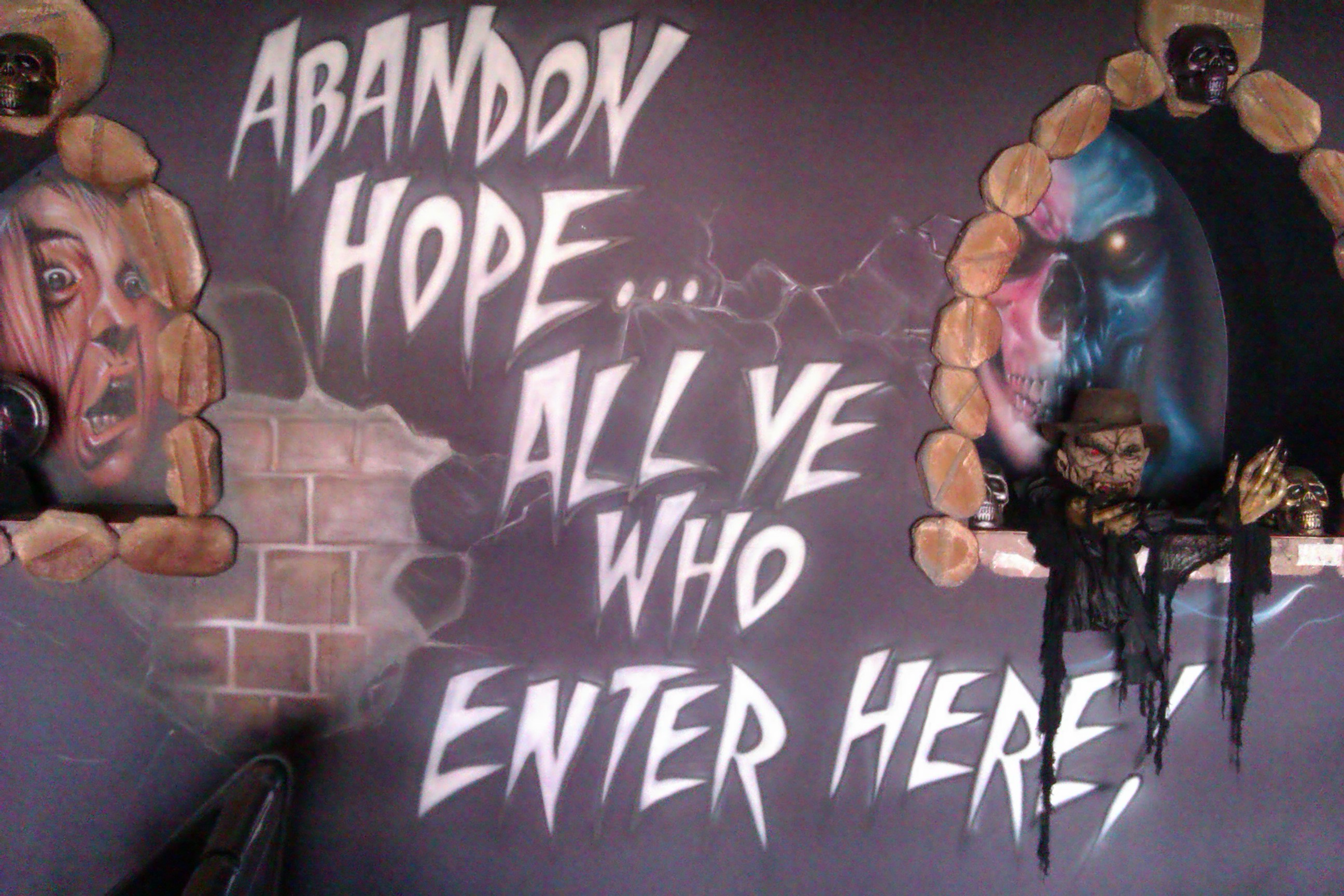 Ghost train